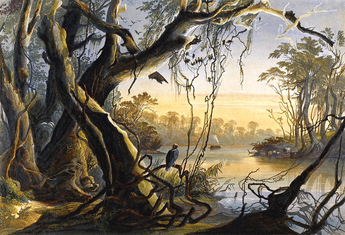 Mouth of Fox River in Indiana. Tableau 5 by Sigismond Himely (after Karl Bodmer).